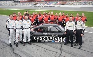 The Level 5 Motorsports team at the Rolex 24 Hours at Daytona - January 30-31, 2010